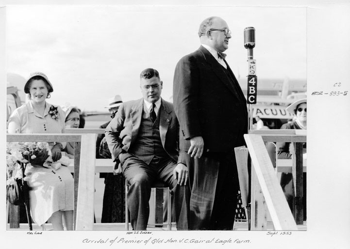 Arrival of Premier of Queensland Hon VC Gair at Eagle Farm, the Premier delivers speech, Mrs Gair and JE Duggan seated.